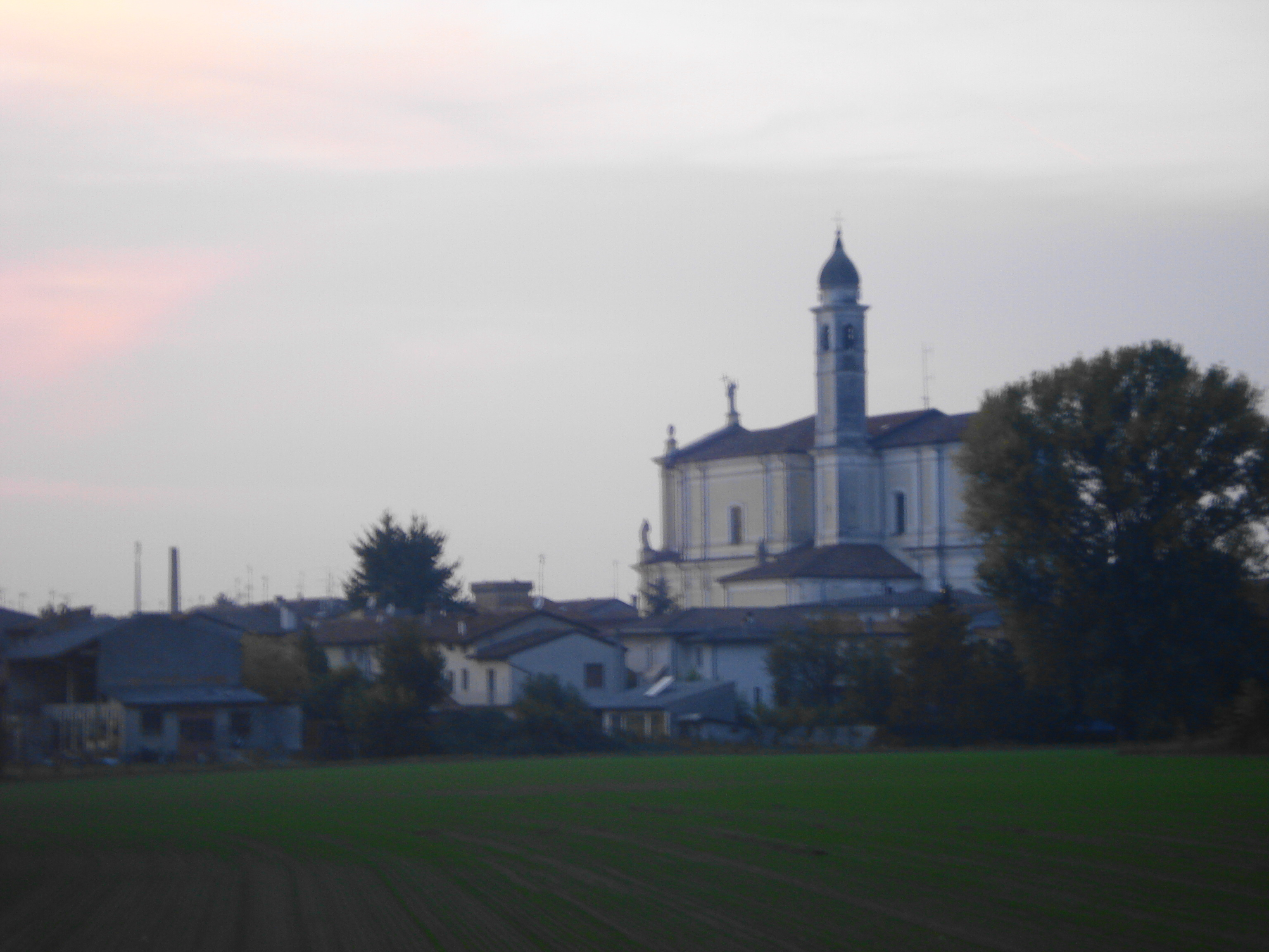 The wiew from fields of Gottolengo